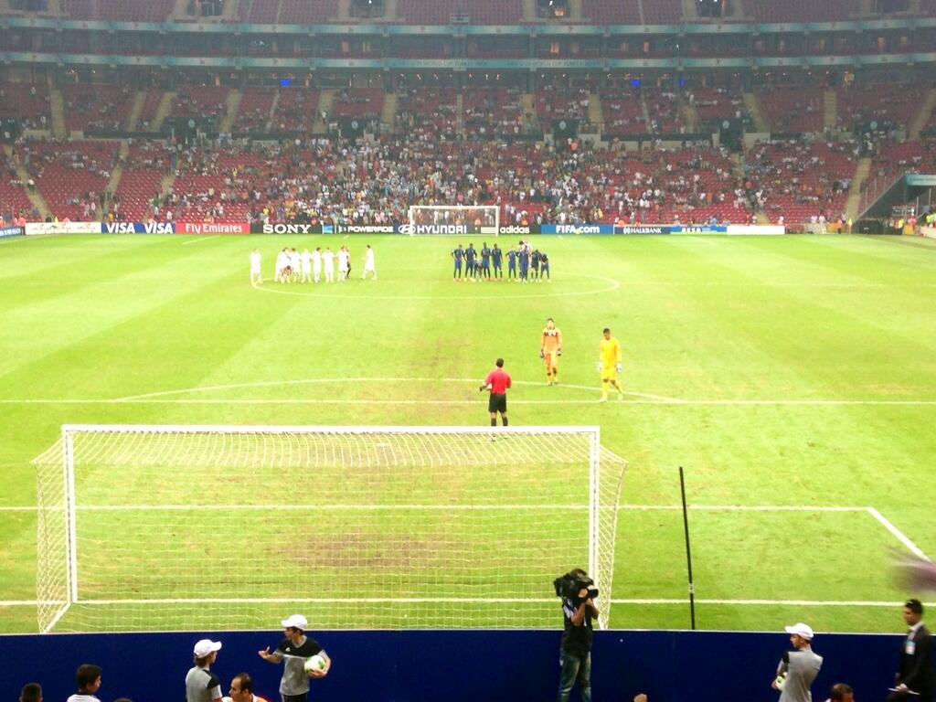 FIFA U-20 WC. FRANCE-URUGUAY (penalty)